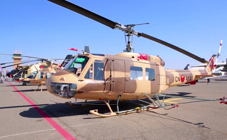 Marrakech Air Show 2014: Agusta-Bell AB.205A has crop-spraying equipment attached to counter plagues of locust